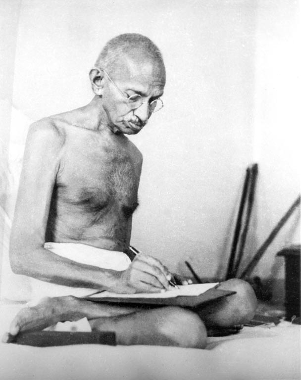 Gandhi drafting a document at Birla House, Mumbai, August 1942.